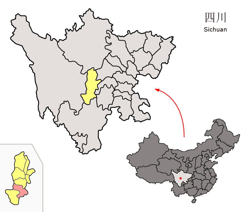 Location of Hanyuan County (pink) and Ya'an Prefecture (yellow) within Sichuan province of China Map drawn in october 2007 using various sources, mainly : Sichuan province administrative regions GIS data: 1:1M, County level, 1990 Sichuan Counties map from